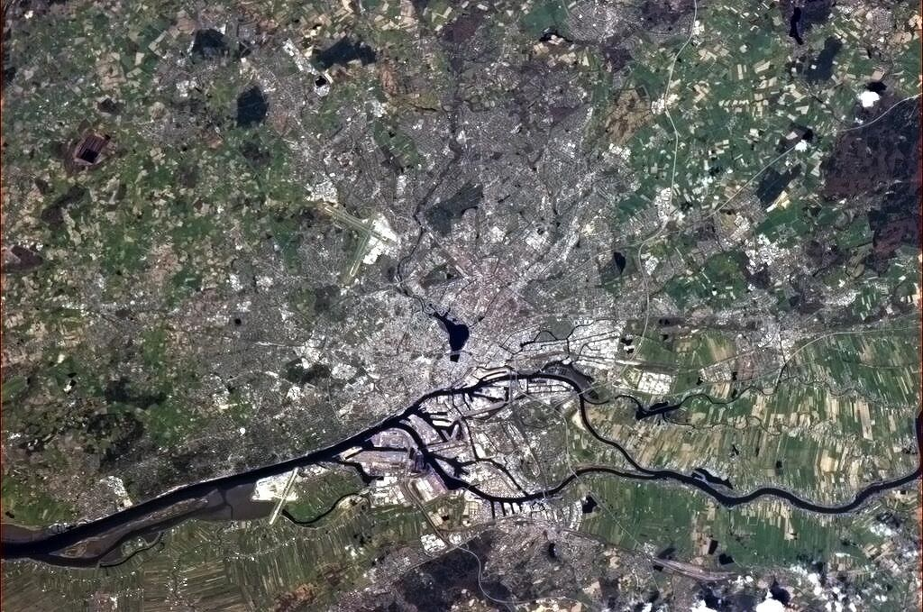 "Hamburg, Germany - with positive wishes to Stefanie Bierholz on her mid-Spring birthday." Caption by astronaut Chris Hadfield aboard the International Space Station.